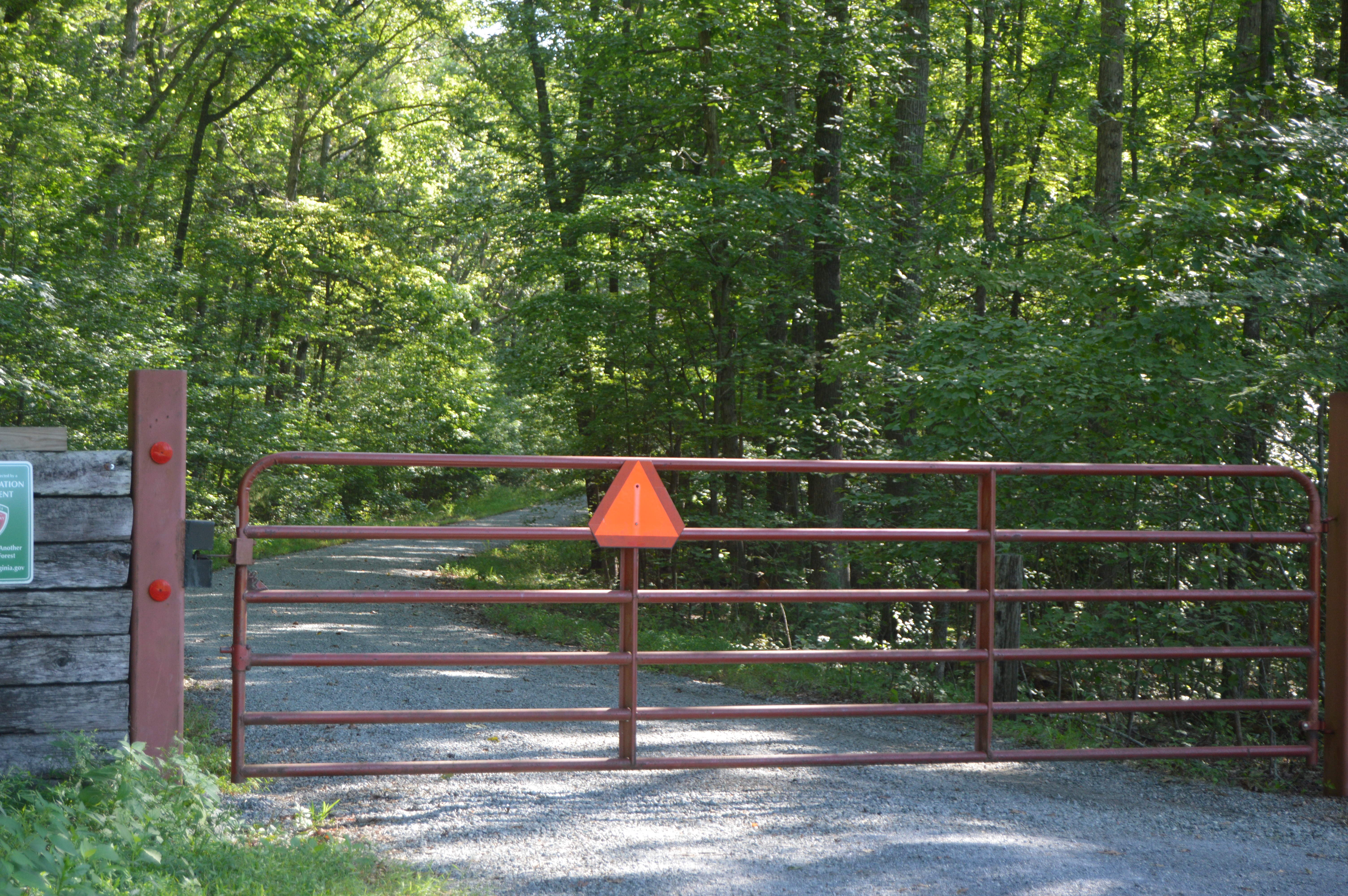 Gate at the end of the driveway to The Cove, located at the end of Cove Road in the northeastern corner of Halifax County, Virginia, United States. The estate is listed on the National Register of Historic Places.